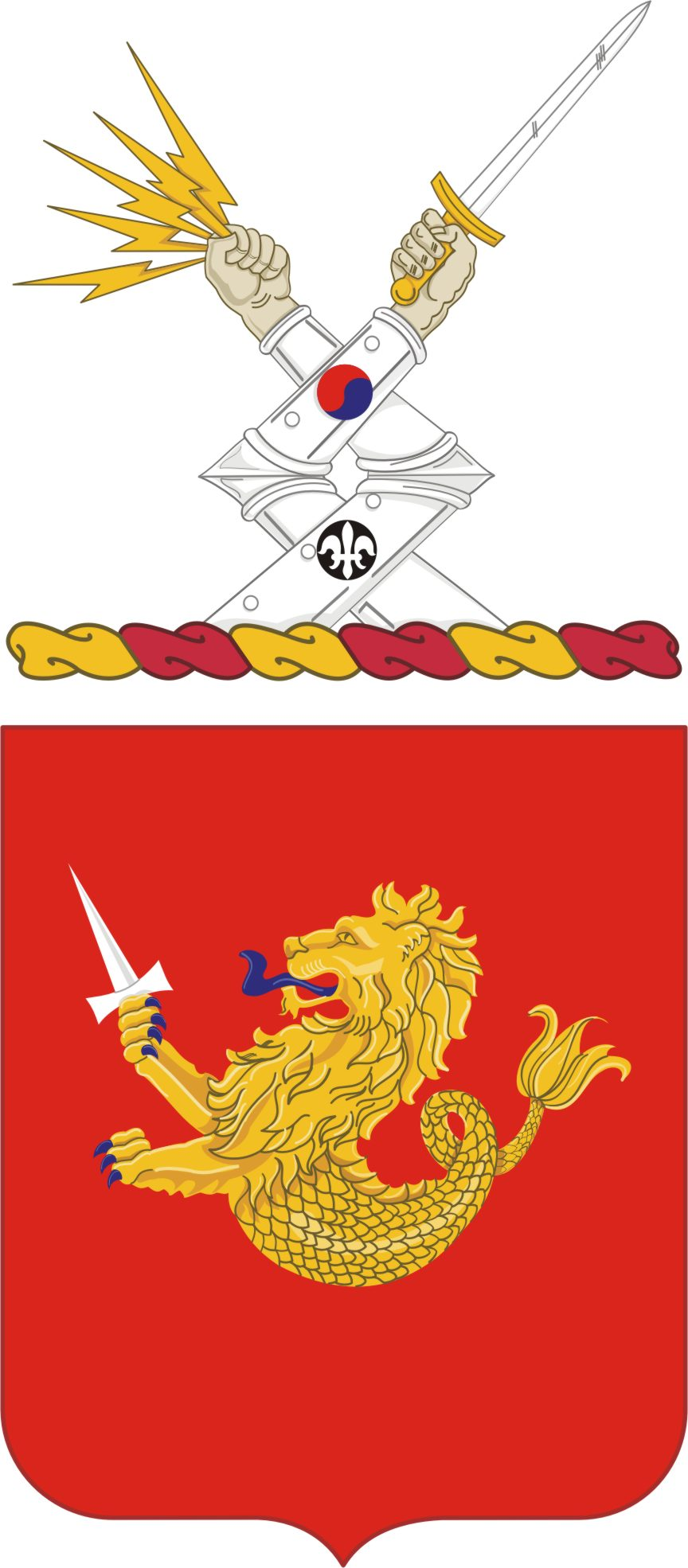 25th field artillery regiment coat of arms